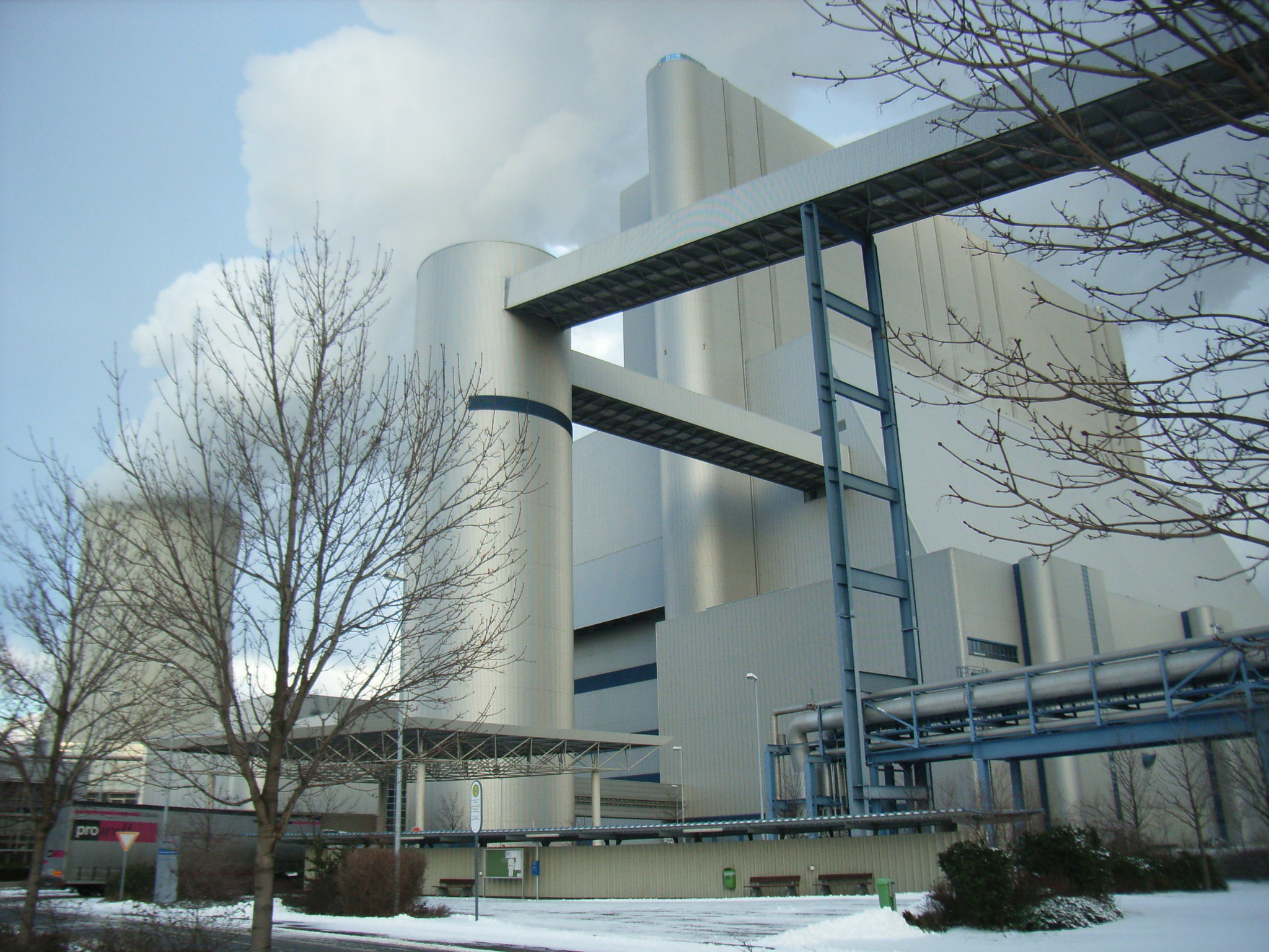 Schwarze Pumpe Power Station near Spremberg in Brandenburg, Germany